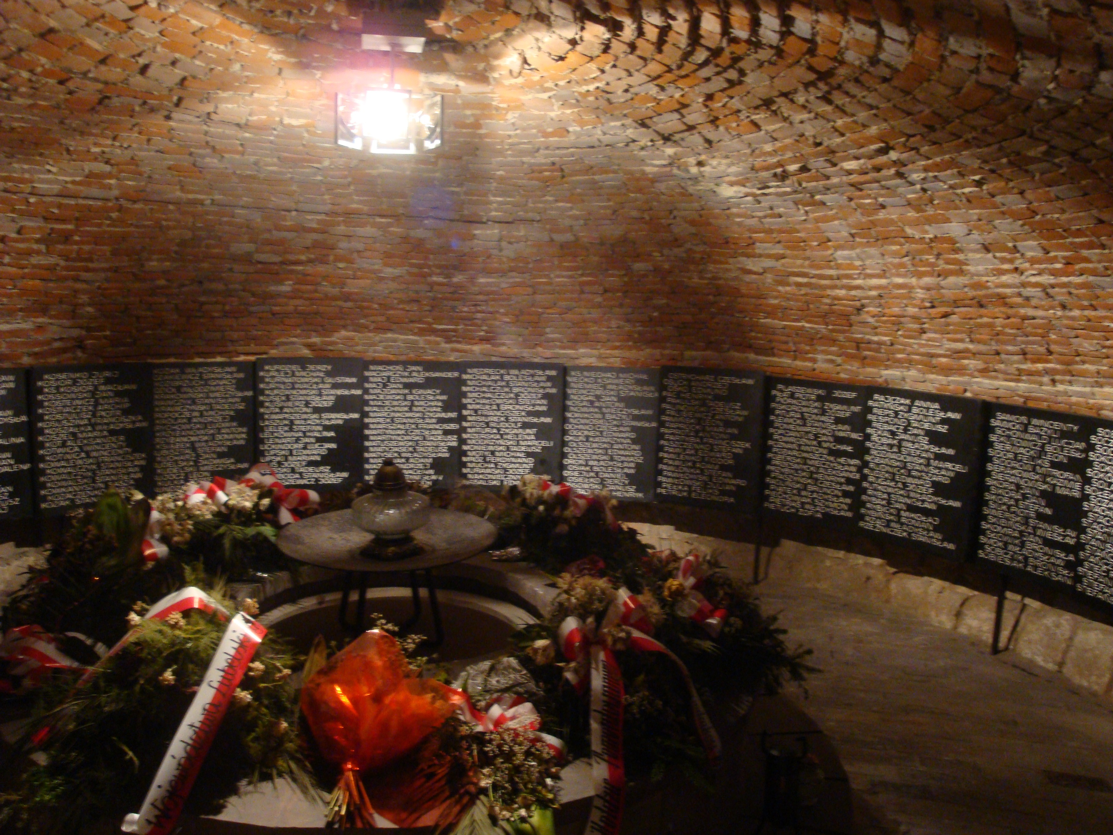 Memorial of victims of terror in Lublin Castle Prison, Lublin, Poland